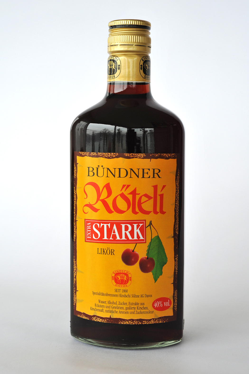 70 cl bottle of Bündner Röteli Stark (strong).